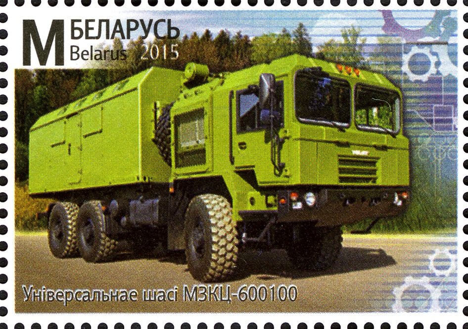 Stamps of Belarus